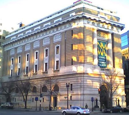 National Museum of Women in the Arts, 5 Dec 2004 Category:Images of Washington, D.C.